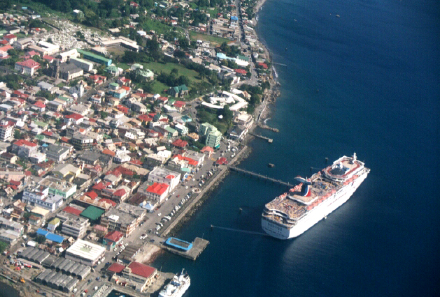 Roseau from the plane from Guadeloupe